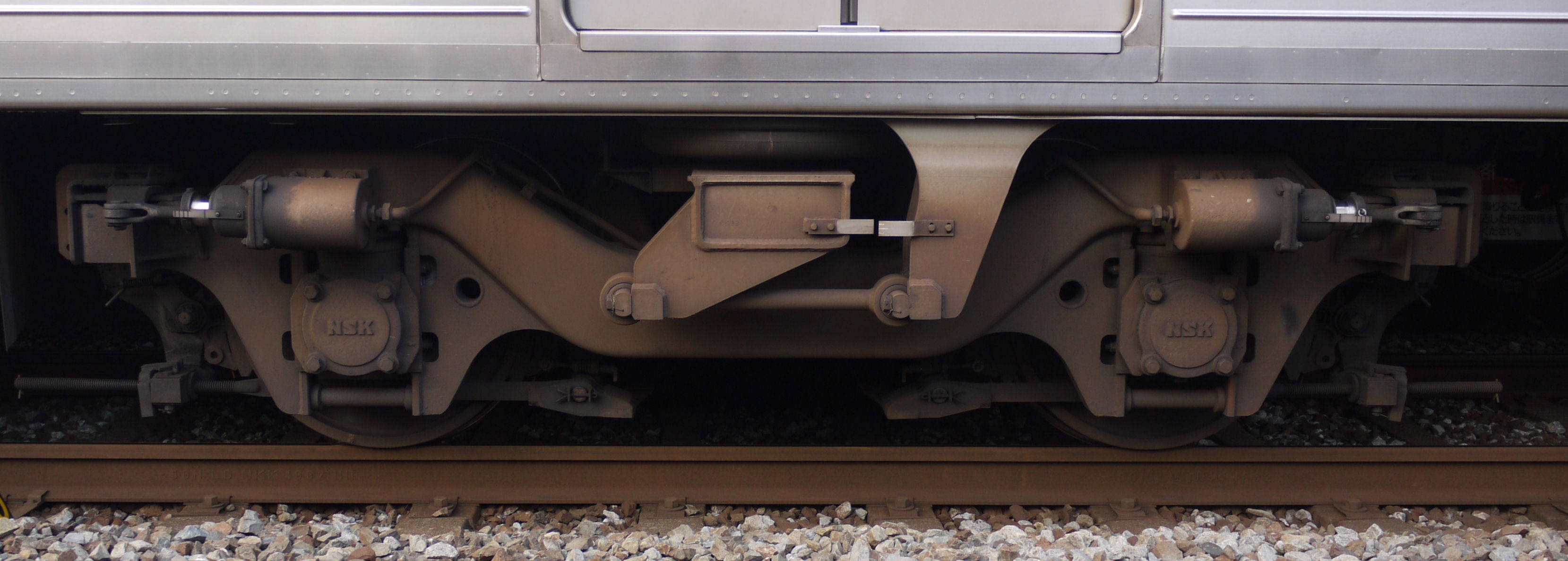 A TS-824 bogie truck for Keio 7000